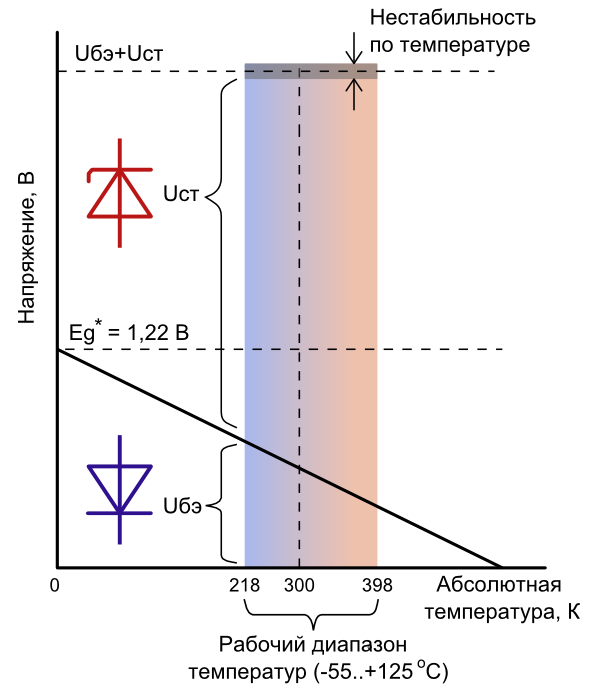 principle of TC zener operation